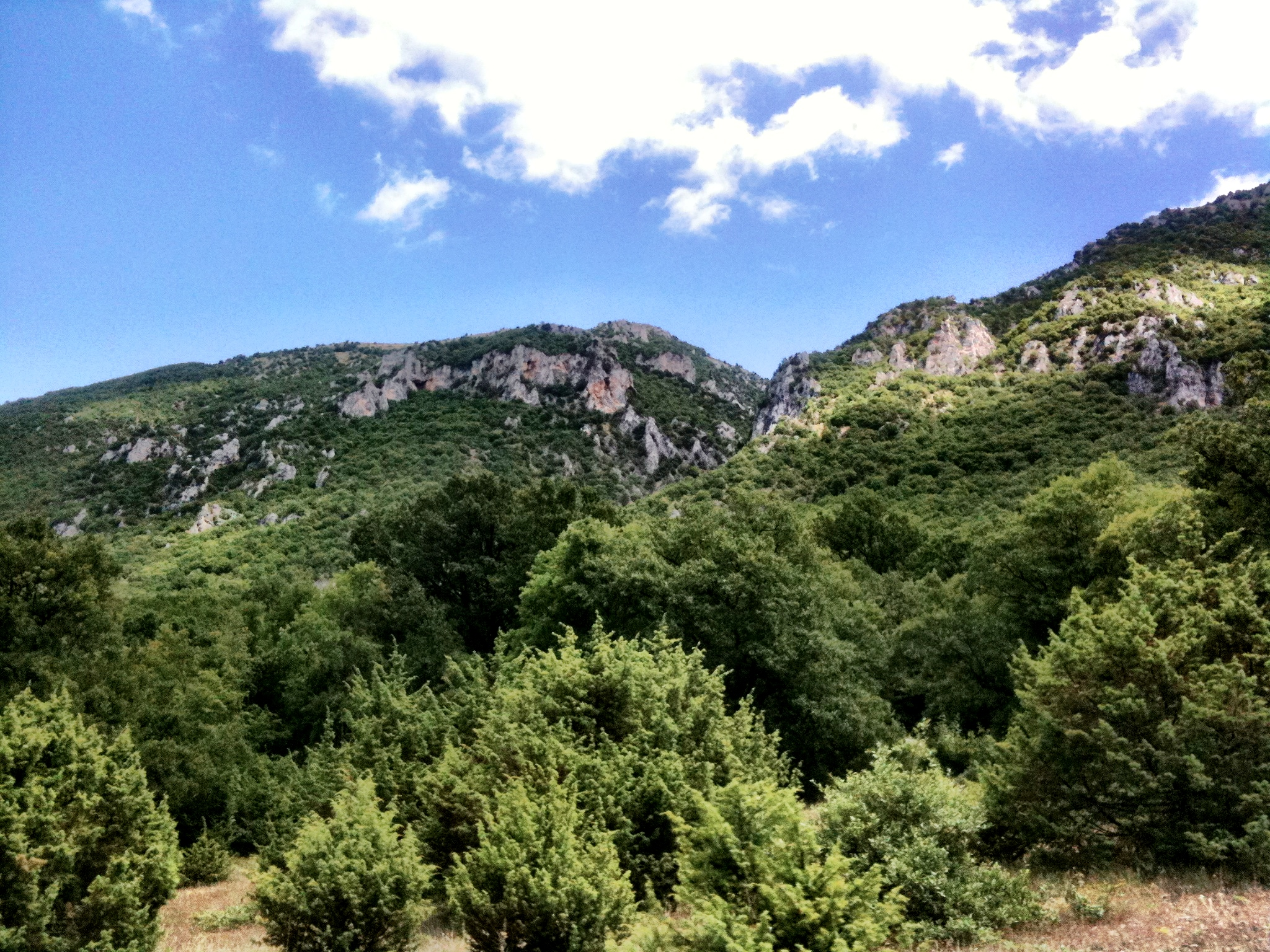 Scenery of Galičica National Park